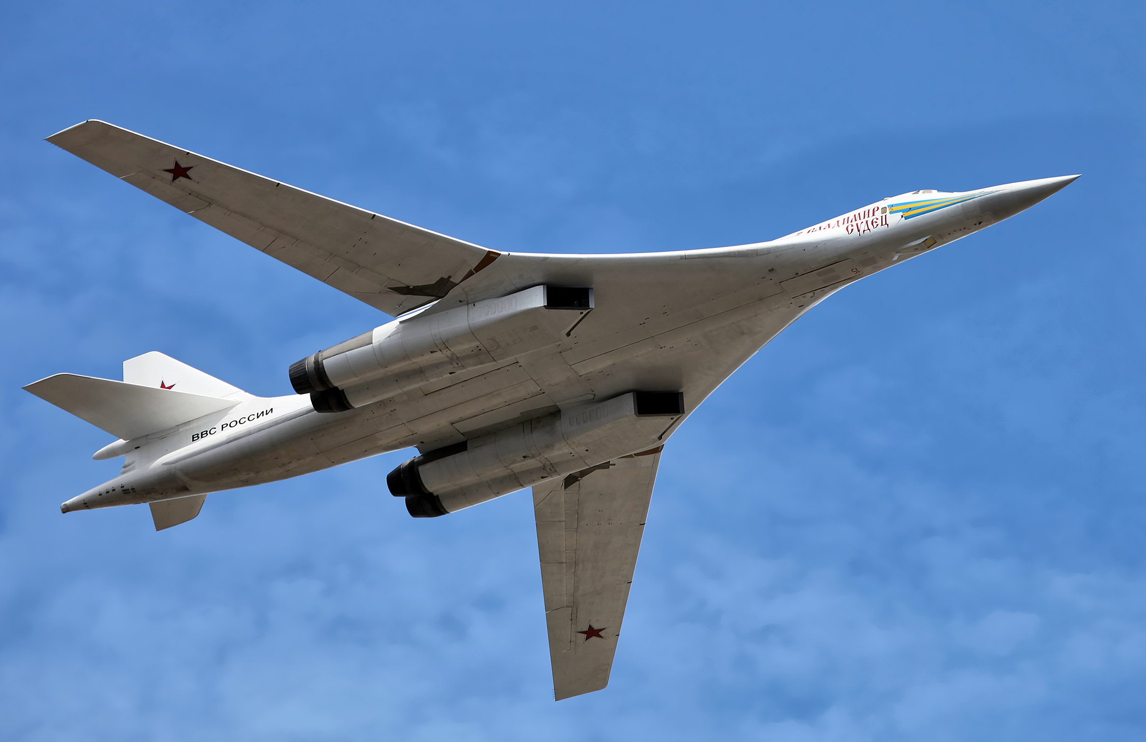 Tu-160 (during the first open rehearsal in Alabino)